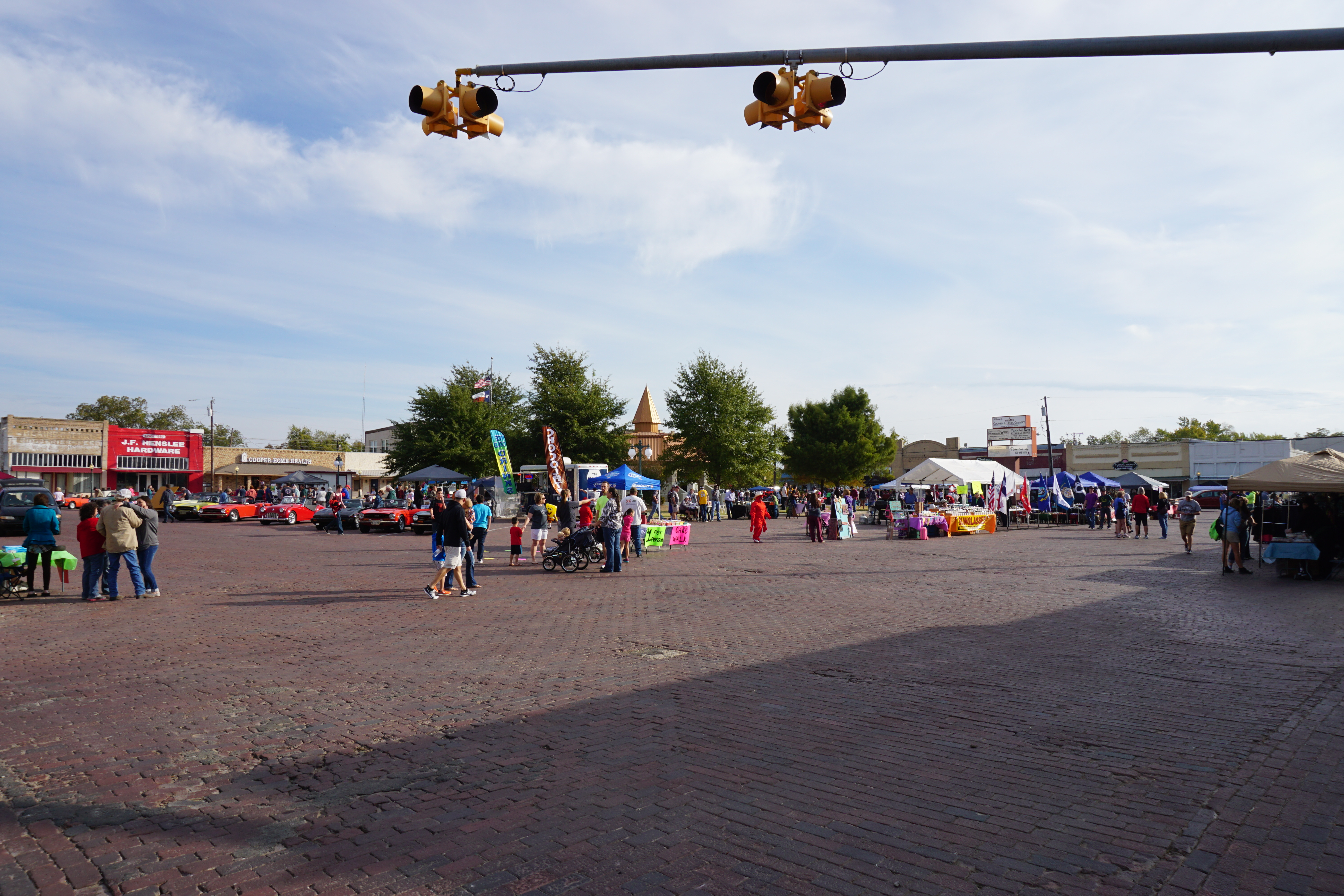 Chiggerfest in Cooper, Texas (United States).